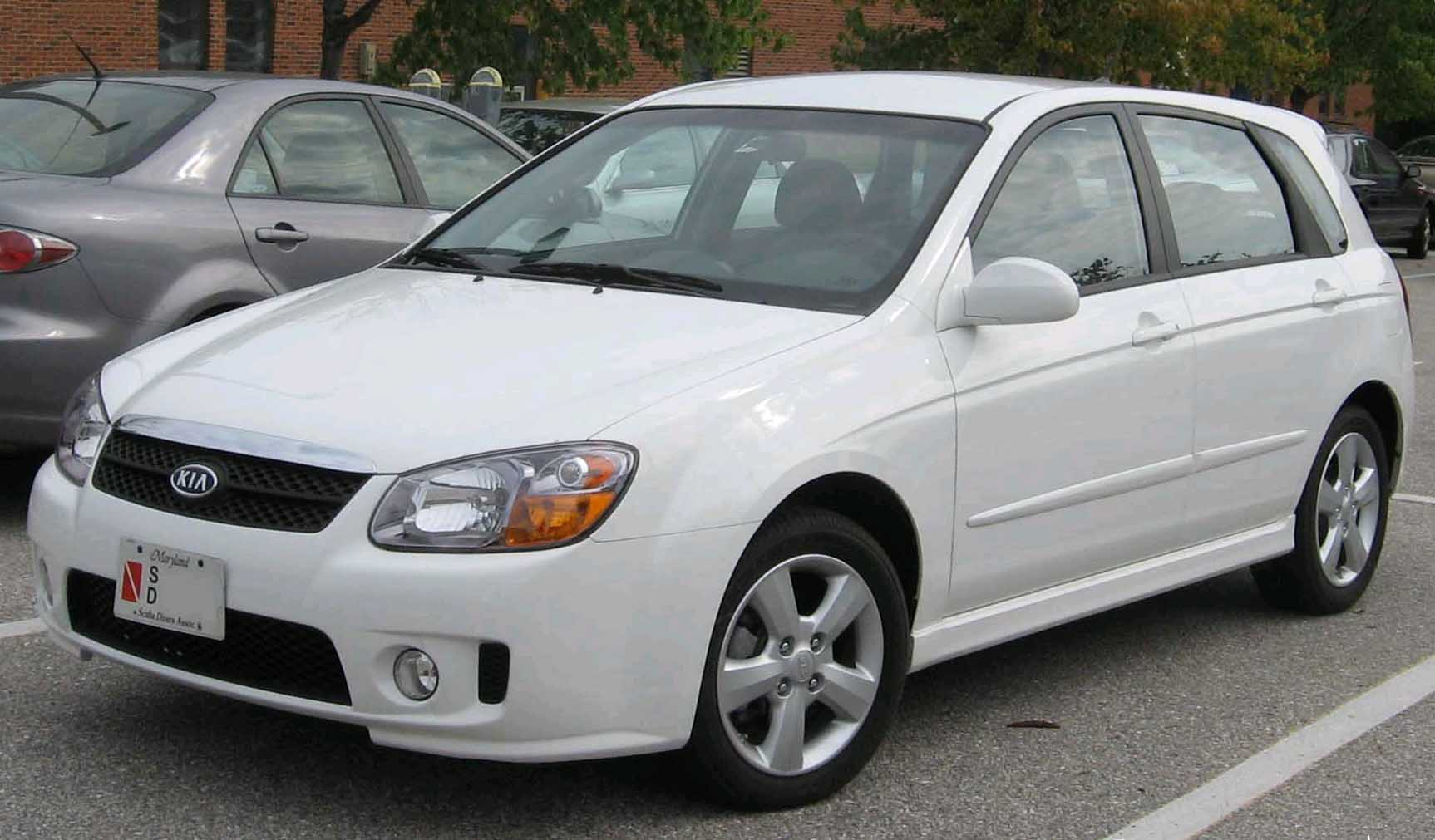 2007 Kia Spectra5 photographed in USA.